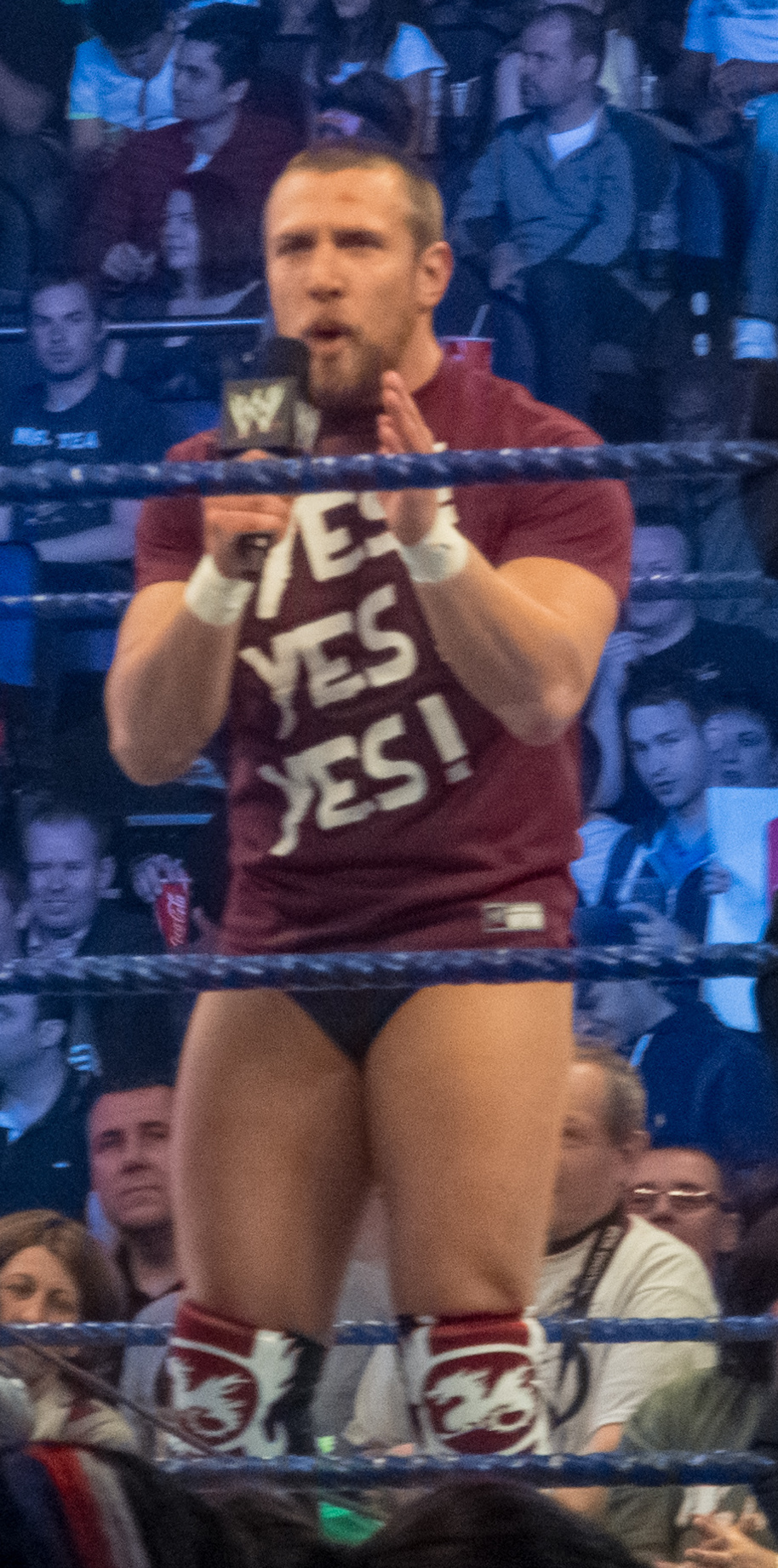 Daniel Bryan promo in WWE Friday Night SmackDown (2012)